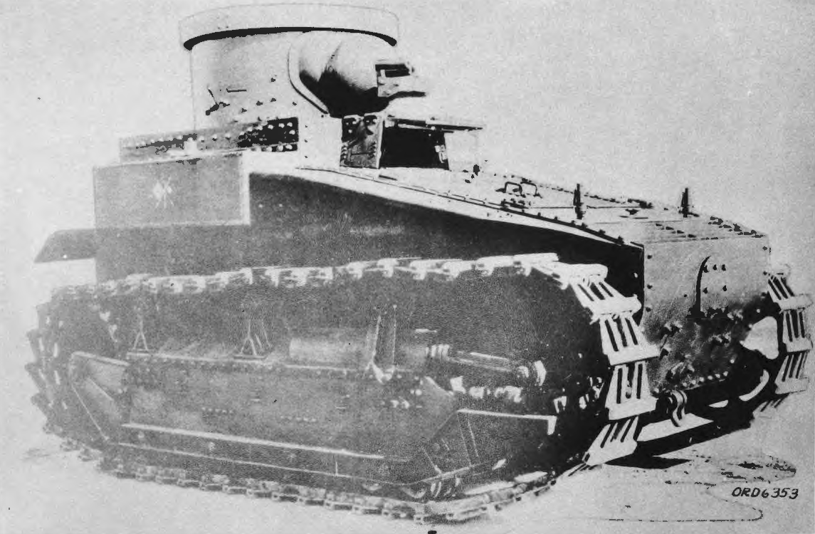 The Light Tank, T1E2, a U.S. Army light tank built in 1929. Only the T1E2 had this form of turret. Though this tank sometimes had a long-barreled gun, here it has the same short-barreled 37 mm M1916 gun carried by the previous T1 versions. The driver's hatch is open.